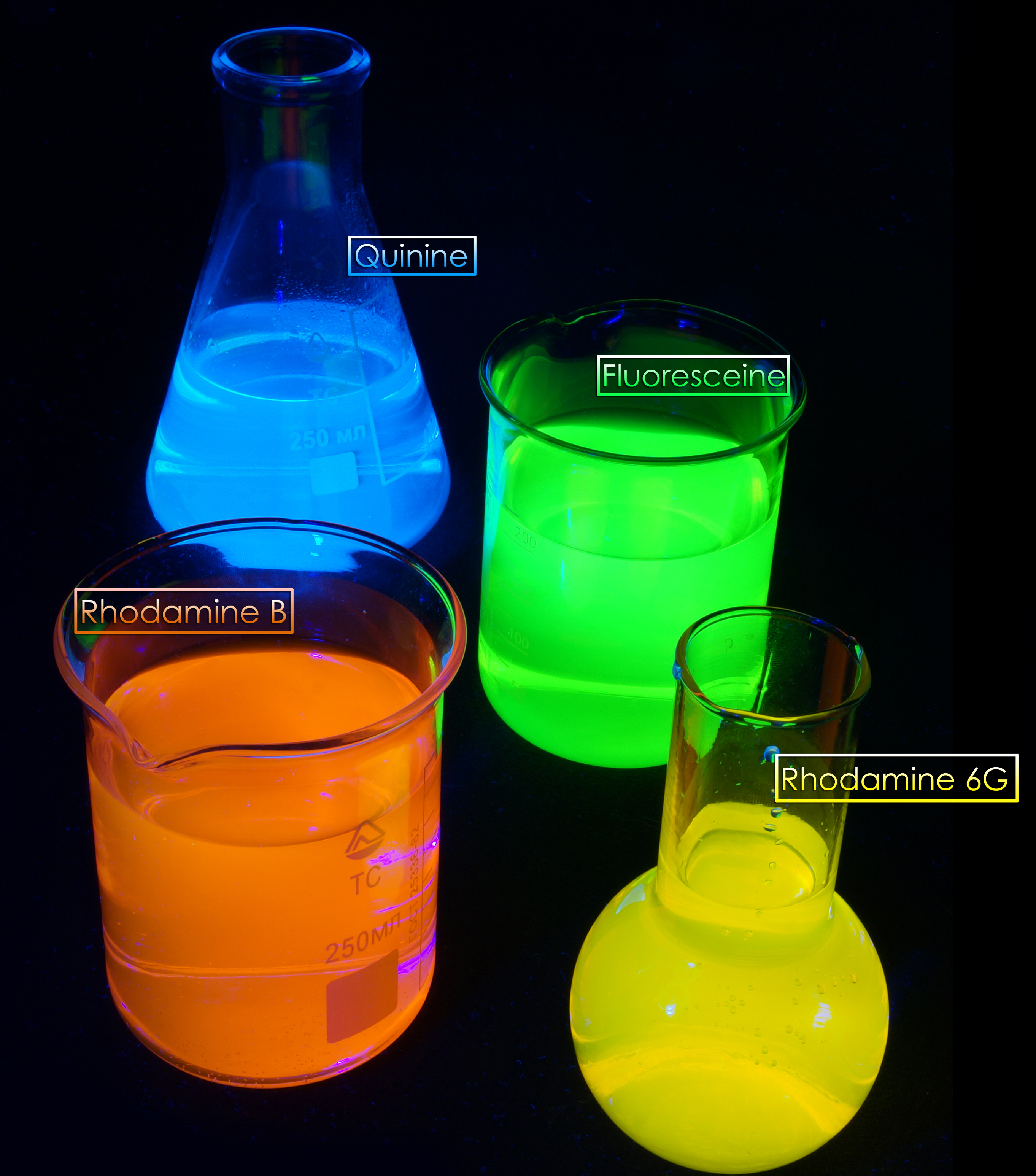 Four different substances fluorescense in UV rays. Substances were dissolved in water about 0,0001% solution.